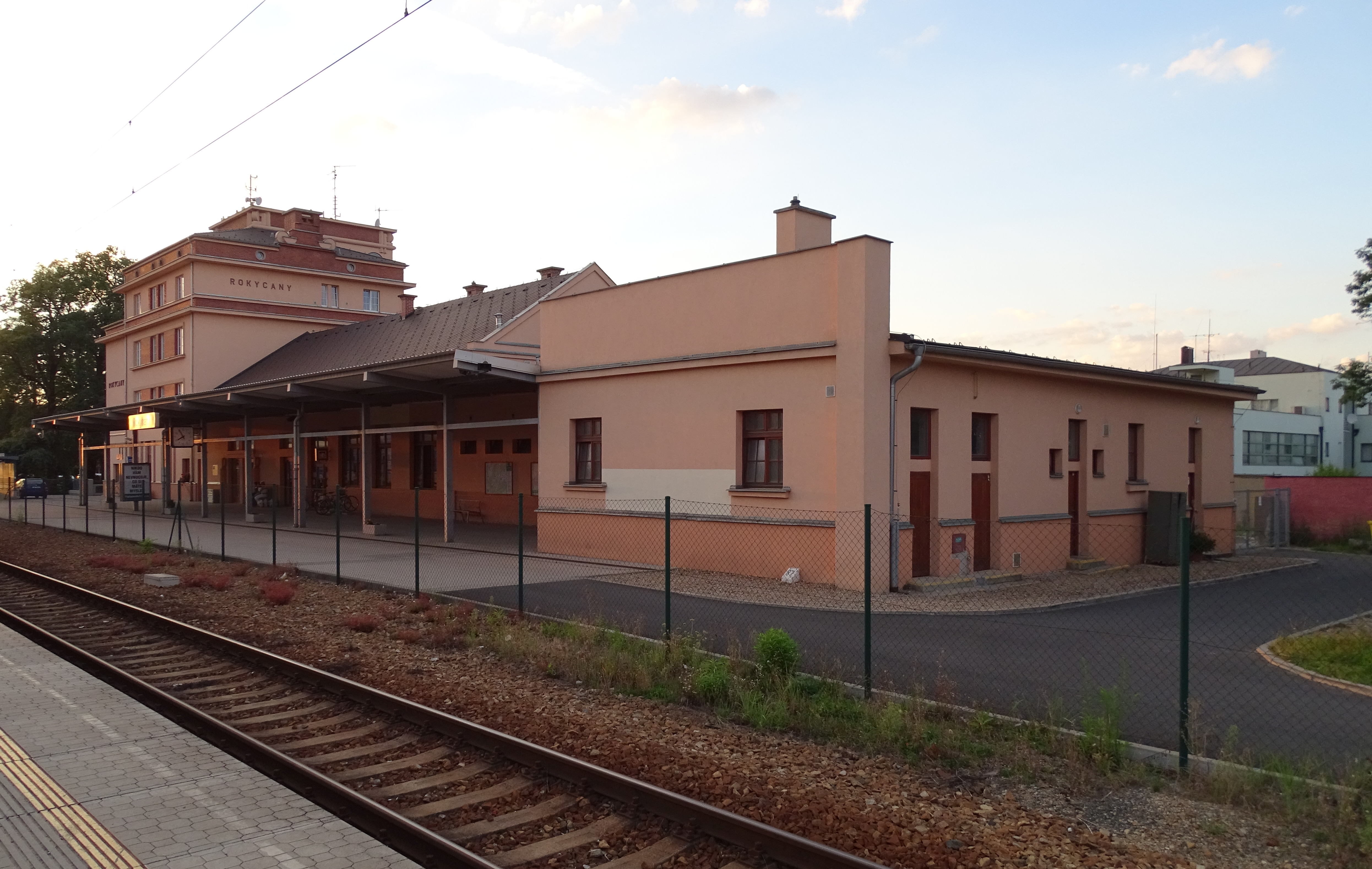 Rokycany, Rokycany District, Plzeň Region, the Czech Republic. Train station Rokycany.